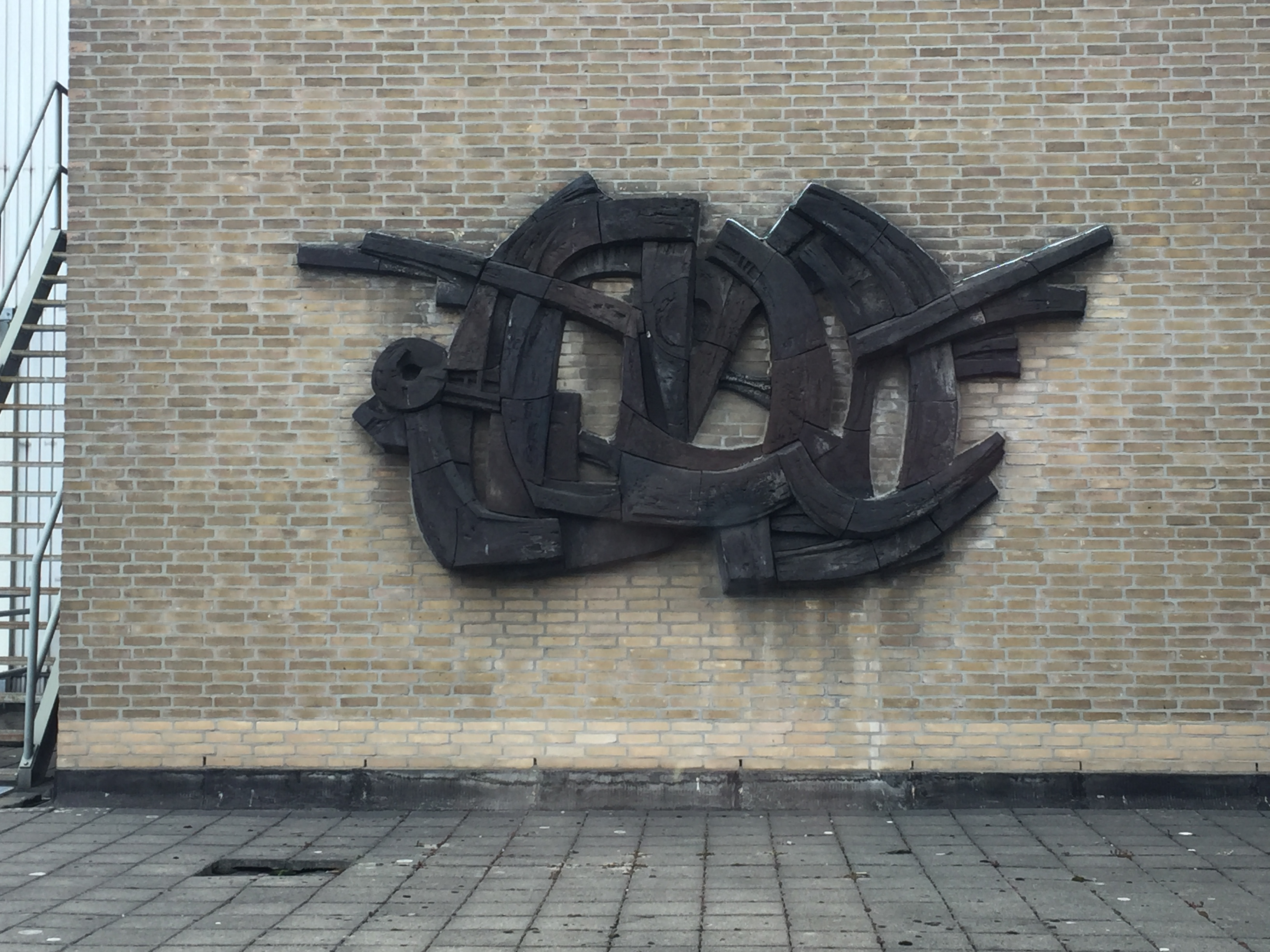 Sculpture Eva by Kees Buurman, Wassenaarseweg 52, Leiden, the Netherlands